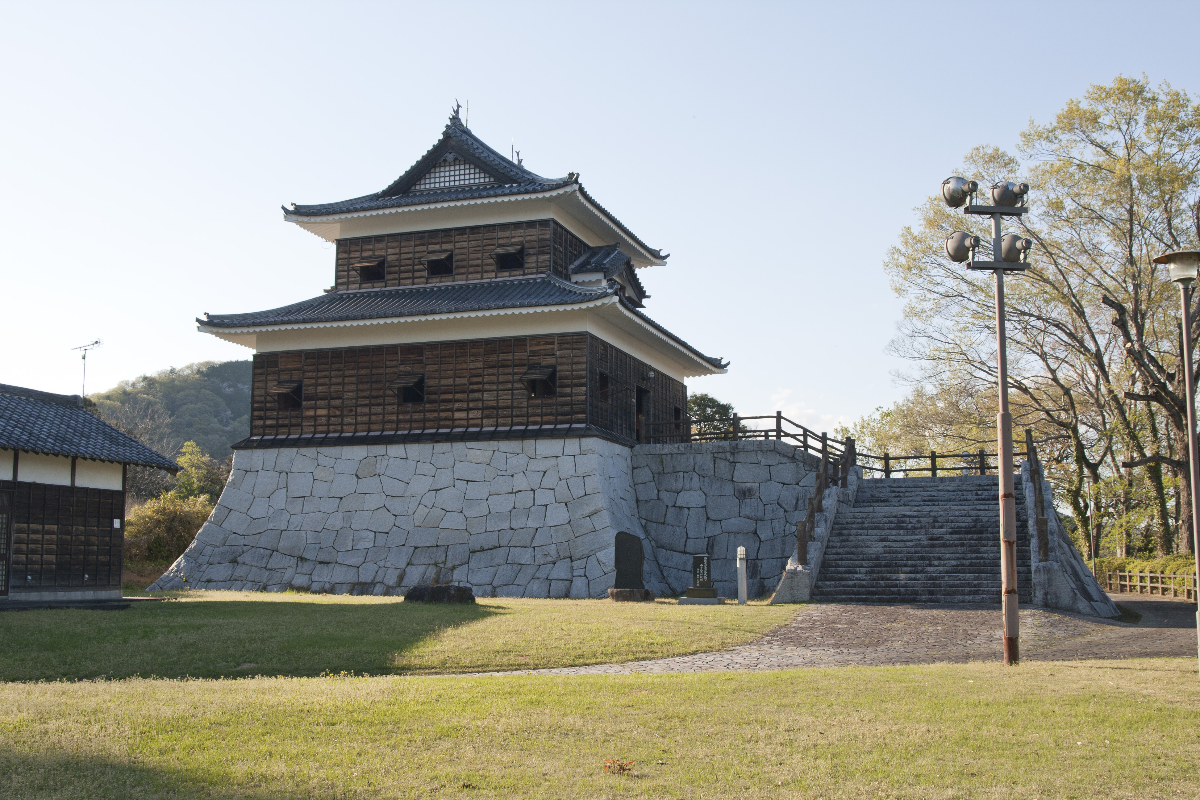 Yamagata Castle in Hitachiomiya City, Ibaraki Pref., Japan